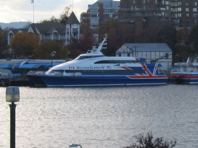 The Victoria Clipper IV docked in Victoria Harbour.